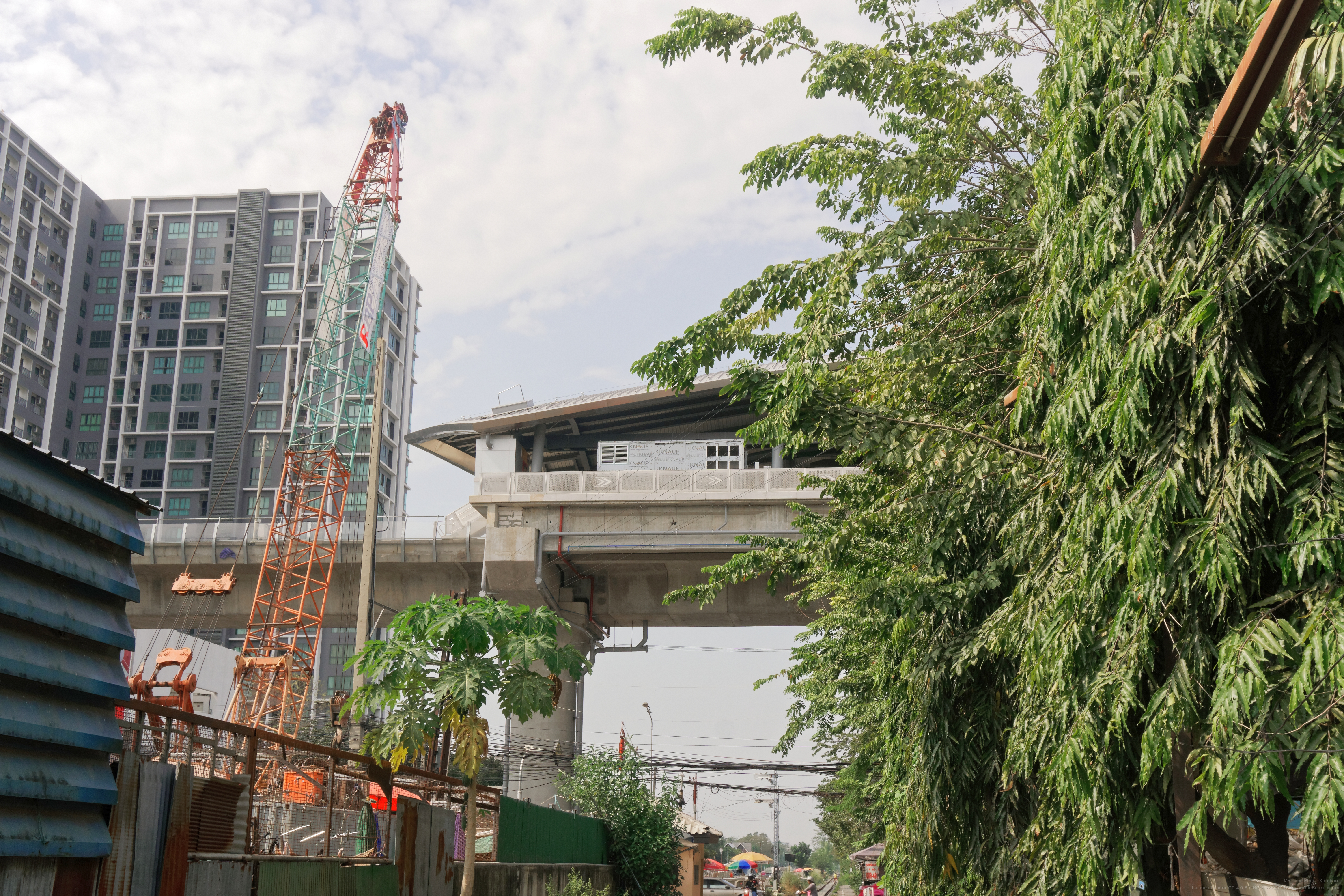 MRT Bang Khun Non – Station view from a train stop